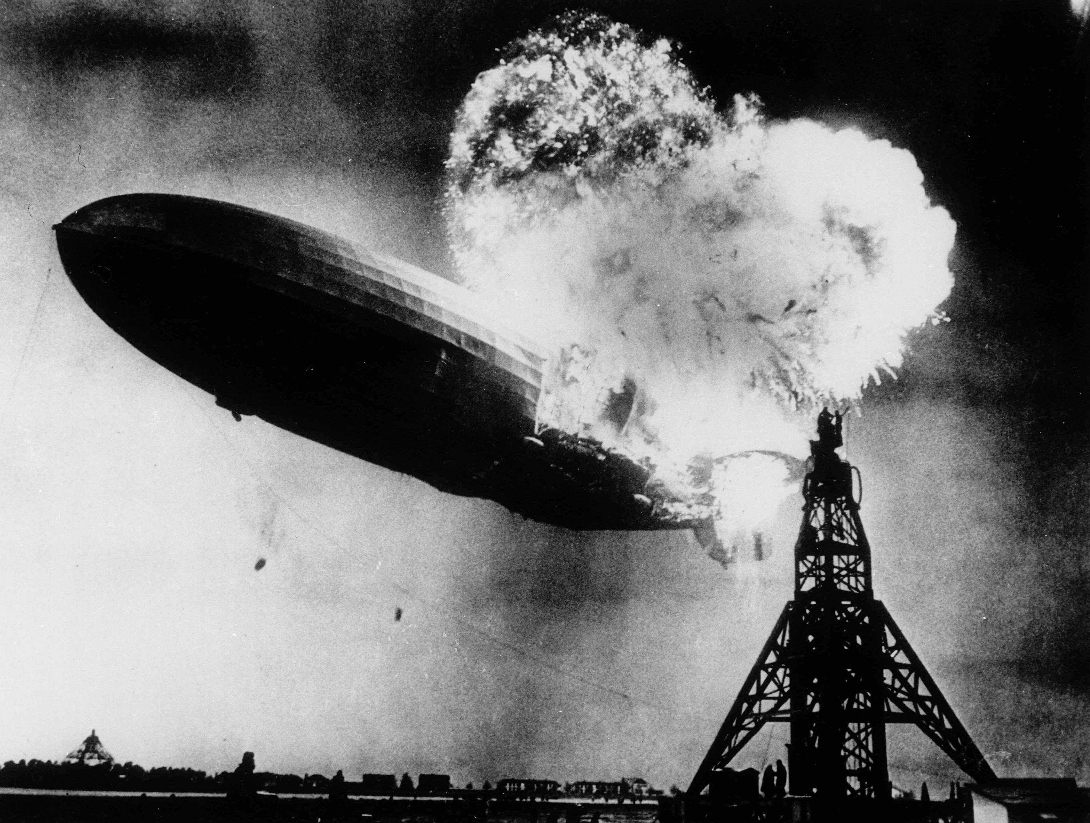 FILE--This photo, taken during the initial explosion of the Hindenburg, shows the 804-foot German zeppelin just before subsequent explosions sent the ship crashing to the ground at Lakehurst Naval Air Station in Lakehurst, N.J., 6 May 1937. The roaring flames silhouette two men, at right atop the mooring mast, dangerously close to the blasts. The scene stimulated NBC radio broadcaster Herbert Morrison to give a memorable and highly emotion account of the disaster. (US NAVY)